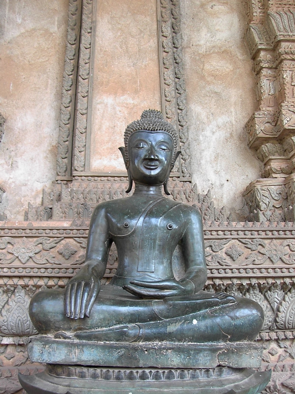 Statue of "the Buddha calling the earth to witness" (Ho Phra Kaeo temple, Vientiane, Laos) Photo by User:Adam Carr, January 2006